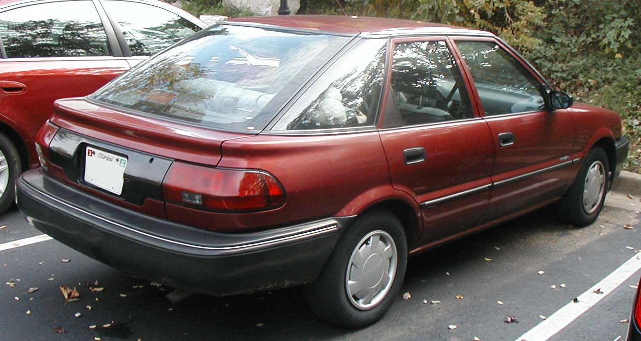 1990-1992 Geo Prizm hatchback photographed in USA.